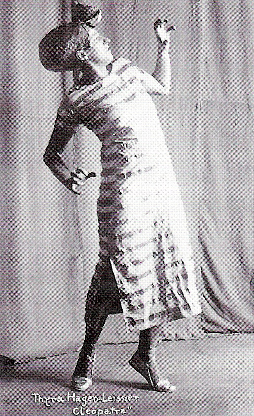 Photograph of Thyra Hagen-Leisner as Cleopatra in the 1922 production of Handel's Opera Giulio Cesare in Göttingen.